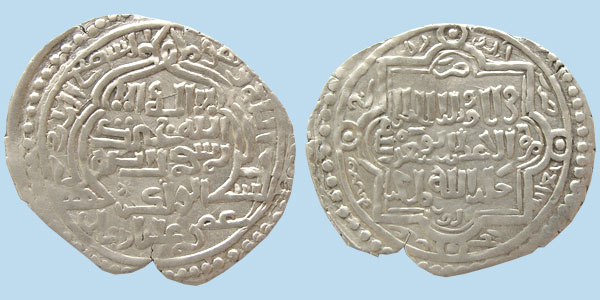 A silver coin from the period of Ikhanate ruler Abu Sa'id (1316-1335). Minted in Enguriye (Ankara) in 1320 (720 in islamic calendar). Obverse inscription: "KELİME-İ TEVHİD" , below "4 HALİFE ADI", around "FESEYEKFİKE HUMULLAHİ VE HÜVE'S SEMİ'ÜL ALİM". Reverse inscription: "DURİBE Fİ EYYAM-I DEVLETİ'S SULTAN'ÜL AZAM EBU SAİD HALLEDALLAHÜ MÜLKEHU", around "DURİBE ENGÜRİYE, Fİ SENE IŞRİN VE SEB'A MİE".